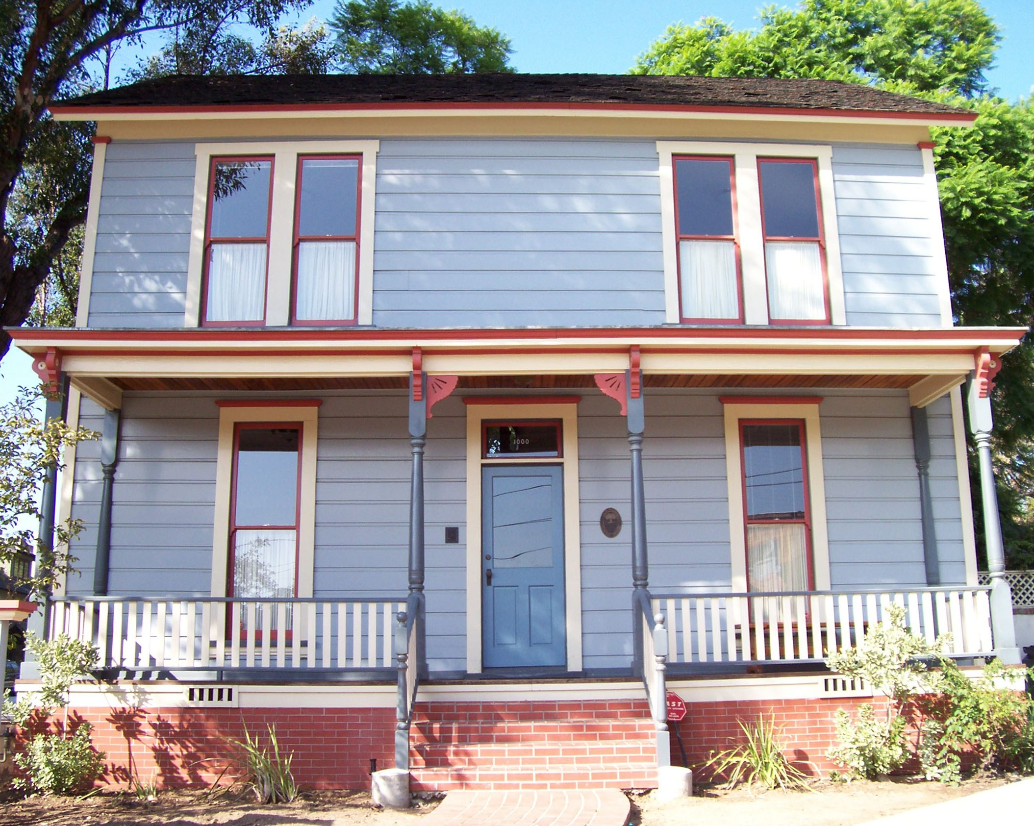 The Victorian style Myers House at 1000 Mission Street-Route 66 - in Los Angeles County, California